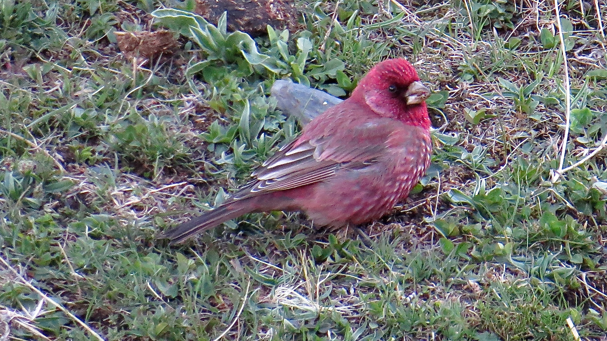 Great Rosefinch (Carpodacus rubicilla)